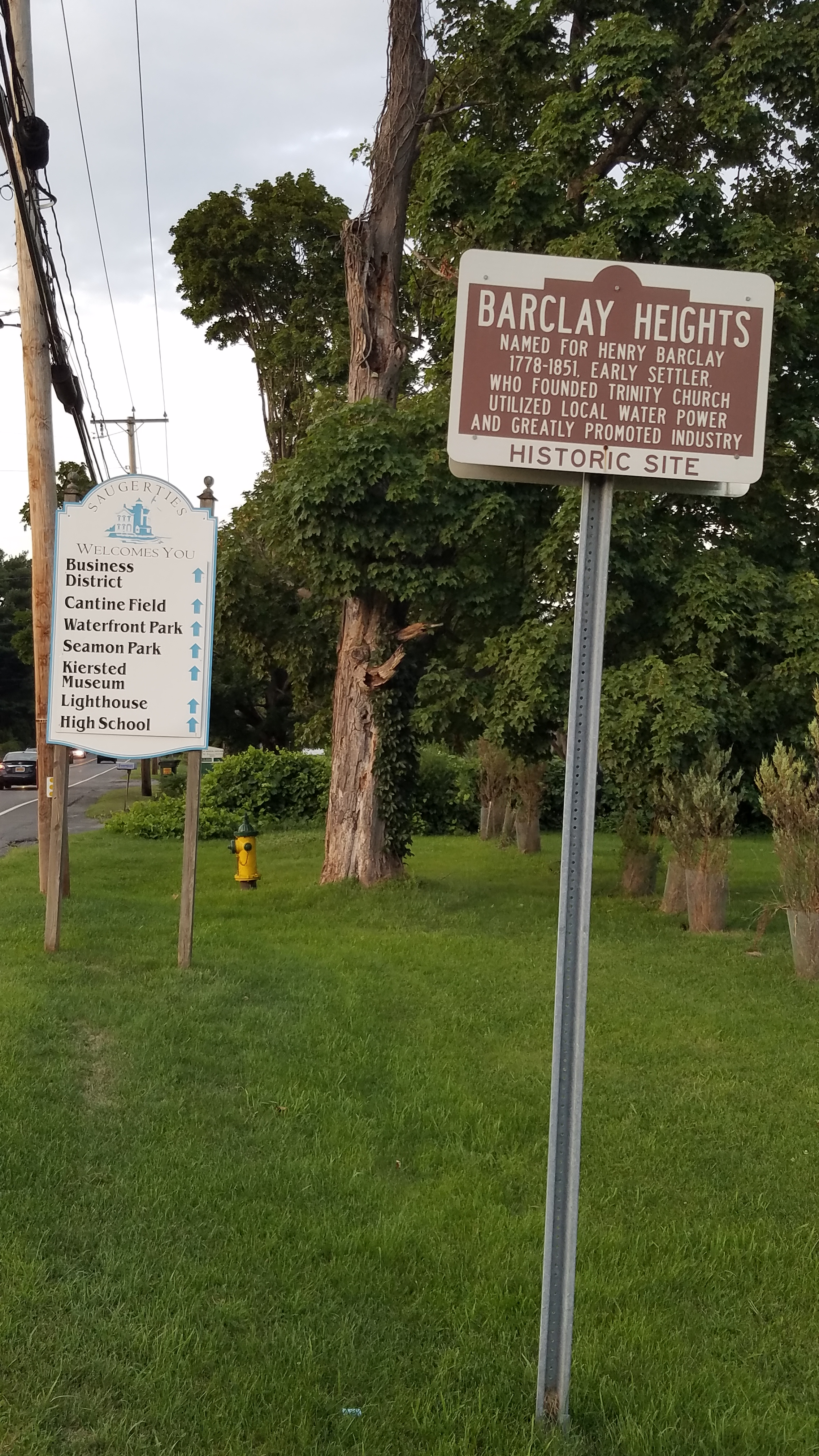 New York State historic marker for Barclay Heights in Saugerties, New York.